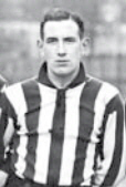 Swedish international footballer Harry "Kuba-Harry" Andersson. In lineup before a game with his club IK Sleipner, around 1935